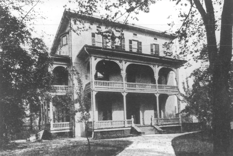 Early 20th century photo of The Calico House (courtesy The Emory Historian blog)